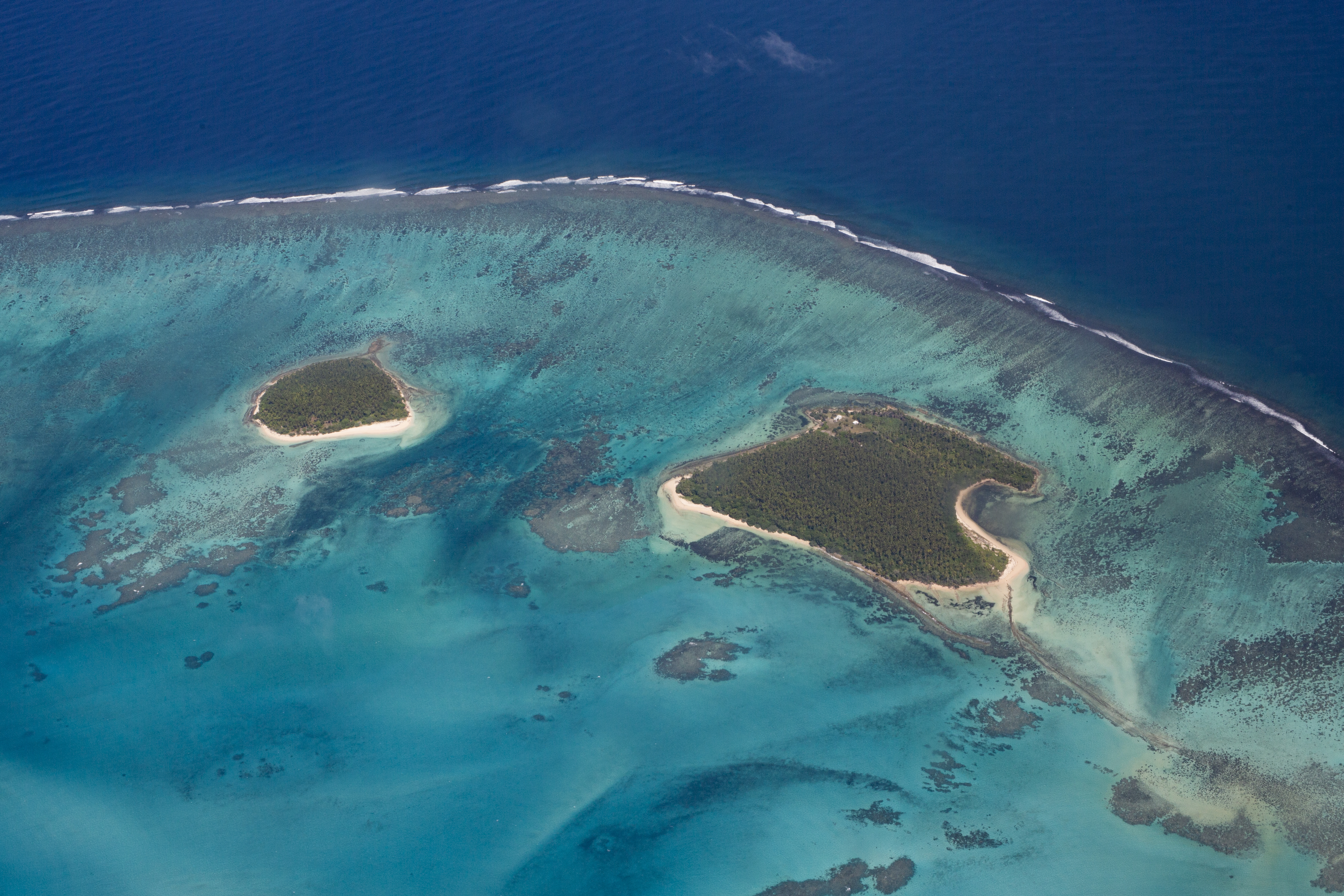 Nuku & Fukave Island, Tonga